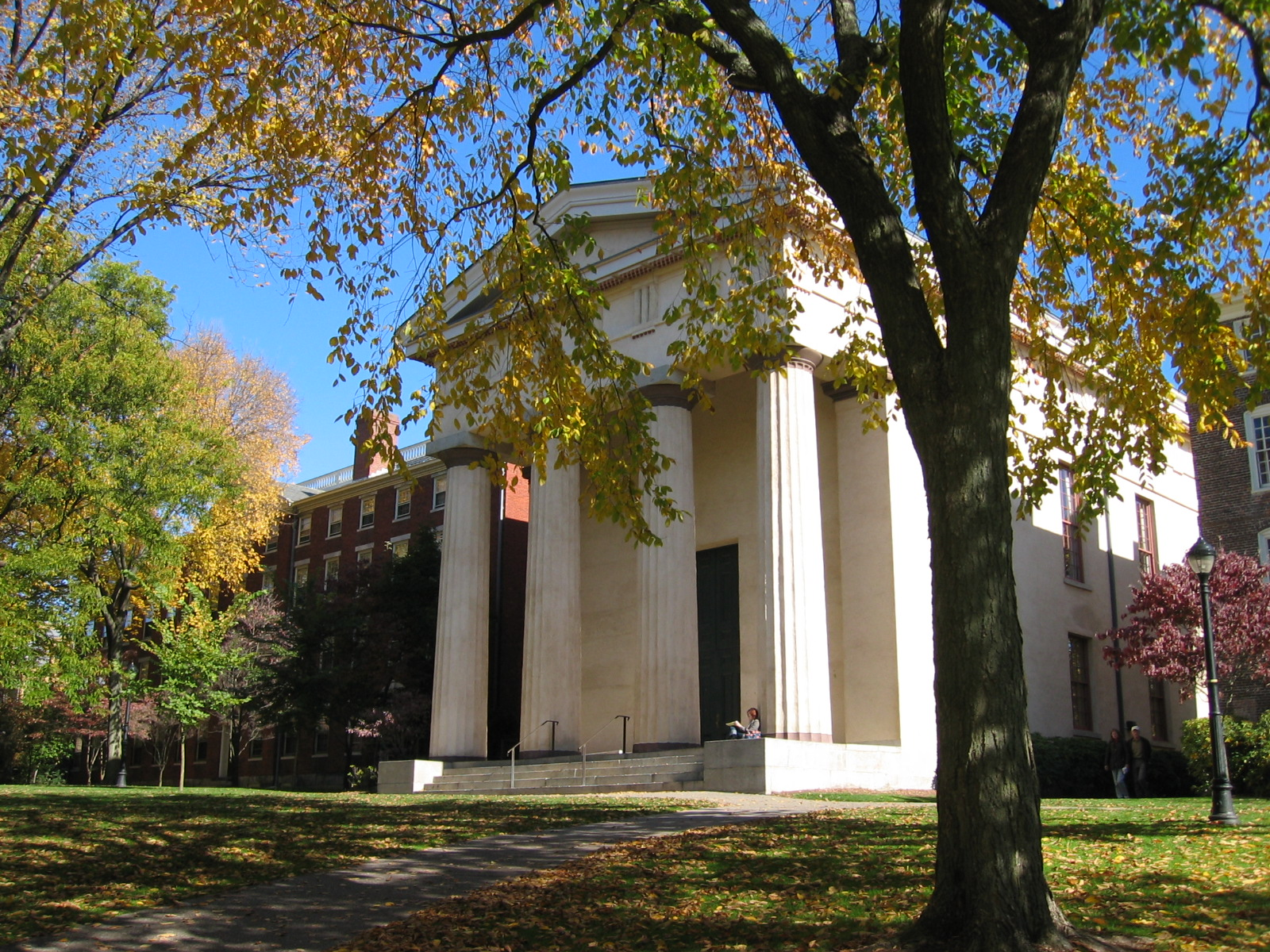 Manning Chapel (Built in 1834) at Brown University.